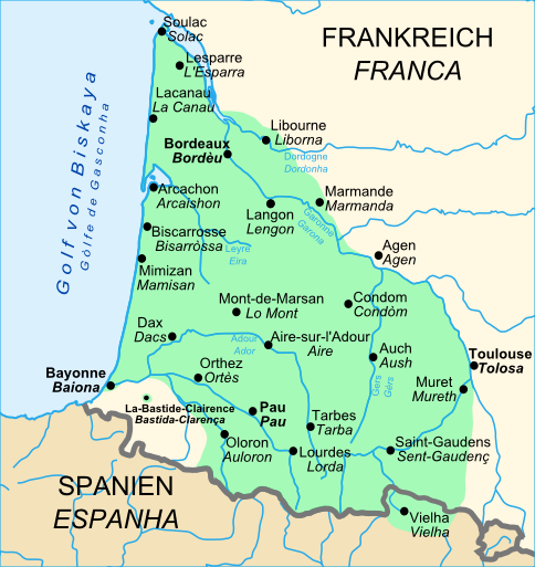 map of Gascony